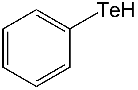 Benzene tellurol